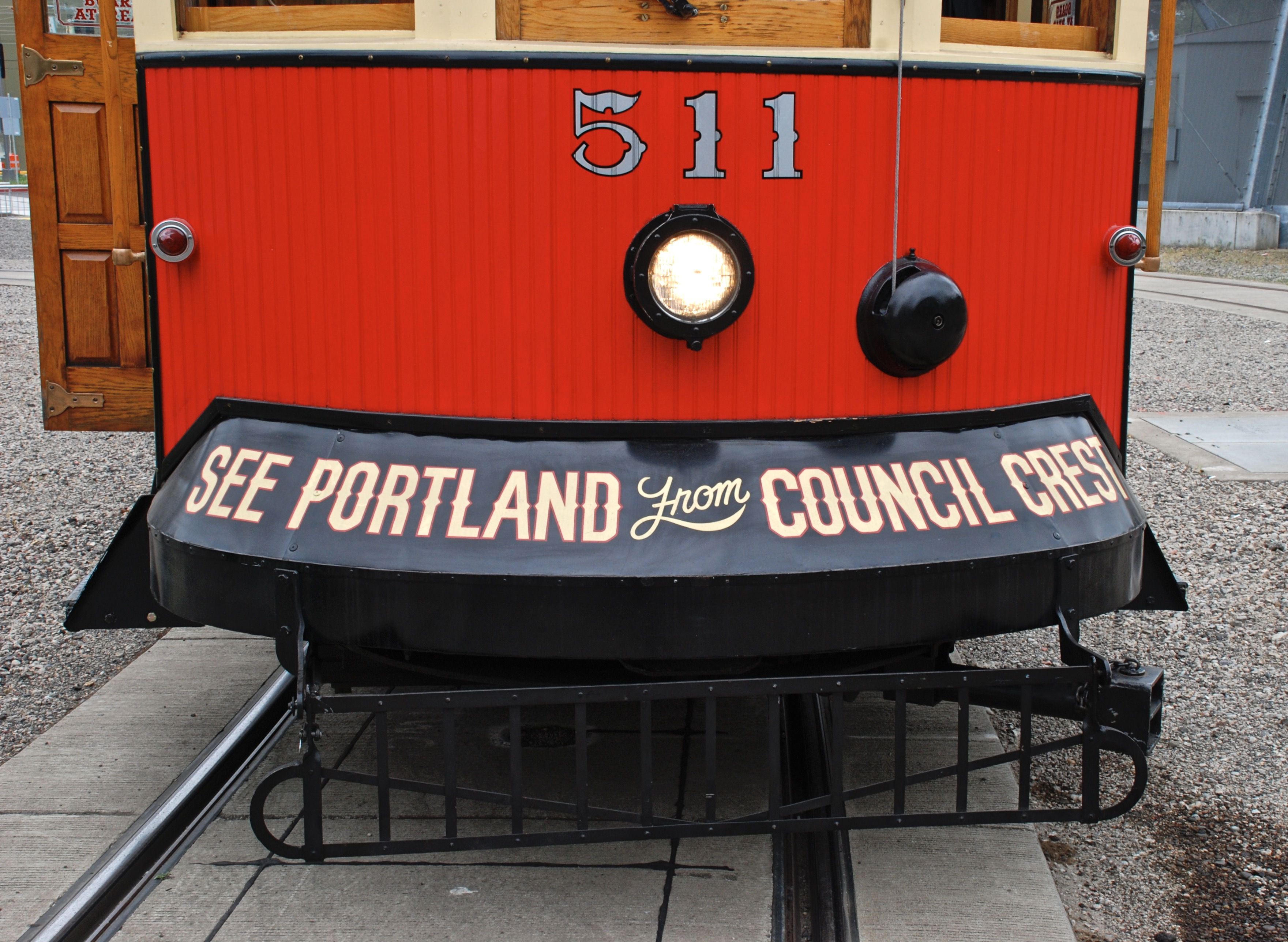 The lower front portion of Portland Vintage Trolley car 511, one of four Gomaco-built replicas of 1903 Brill streetcars of a model that served Portland's scenic Council Crest line from 1904 to 1950. The original cars (501-510) carried a "See Portland from Council Crest" advertisement (by the street railway company) during their last several years in service, and this was recreated for the 1991-built replicas.